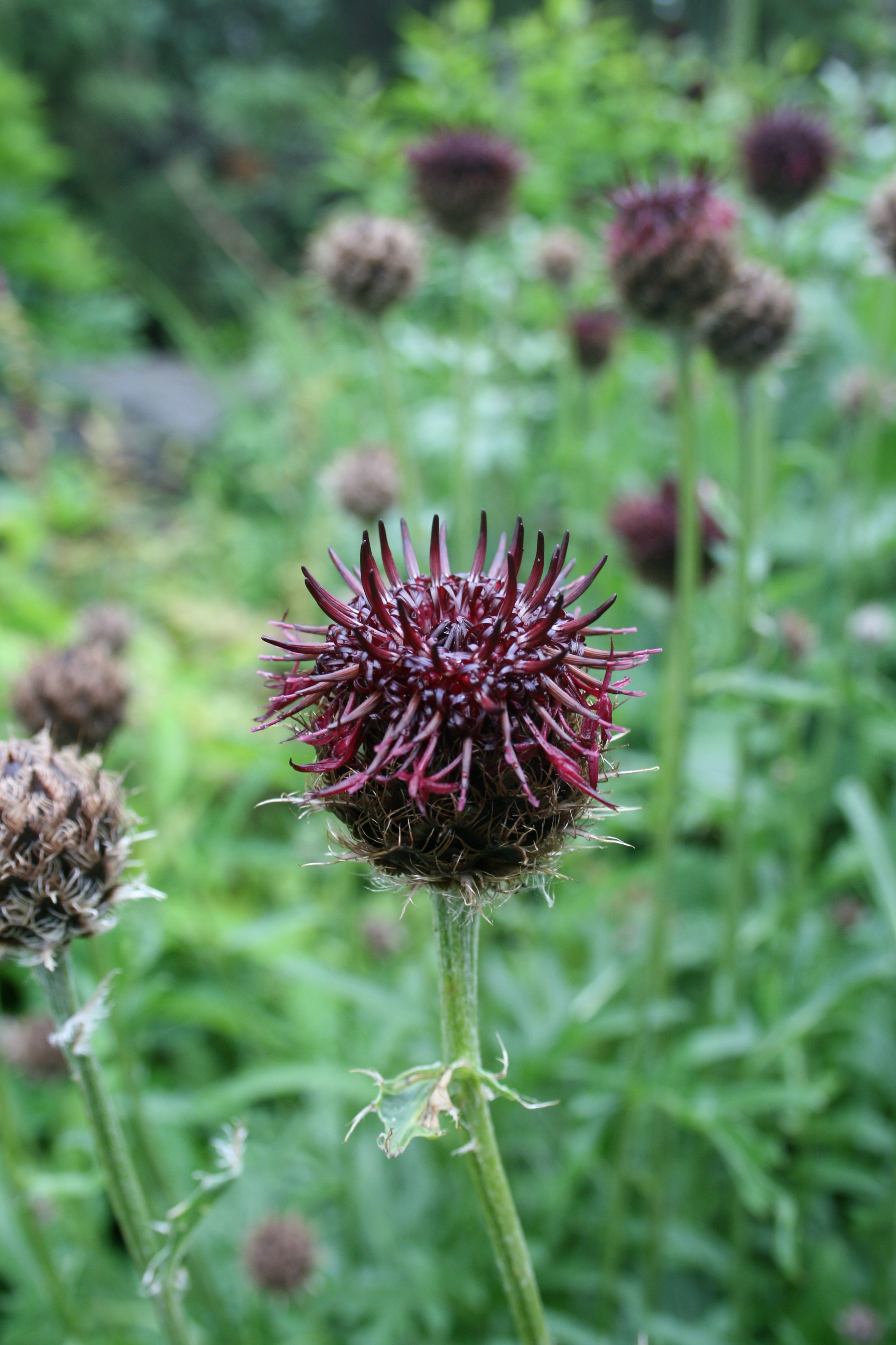 Centaurea kotschyana